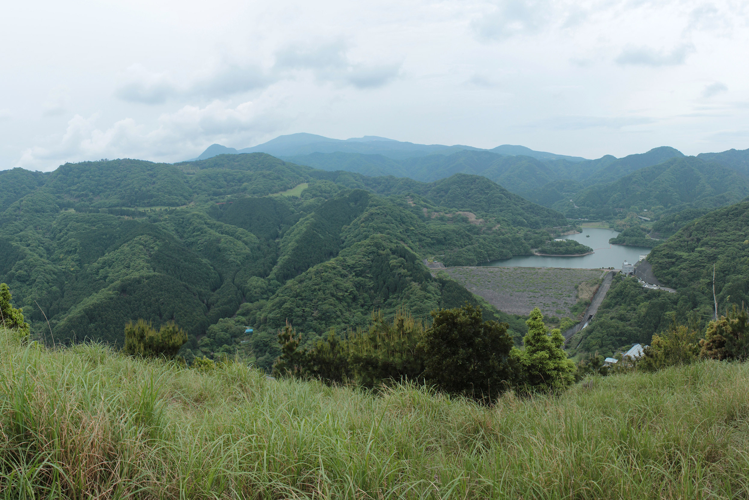 Okuno Dam as seen from the ENE in Ito, Shizuoka Prefecture.